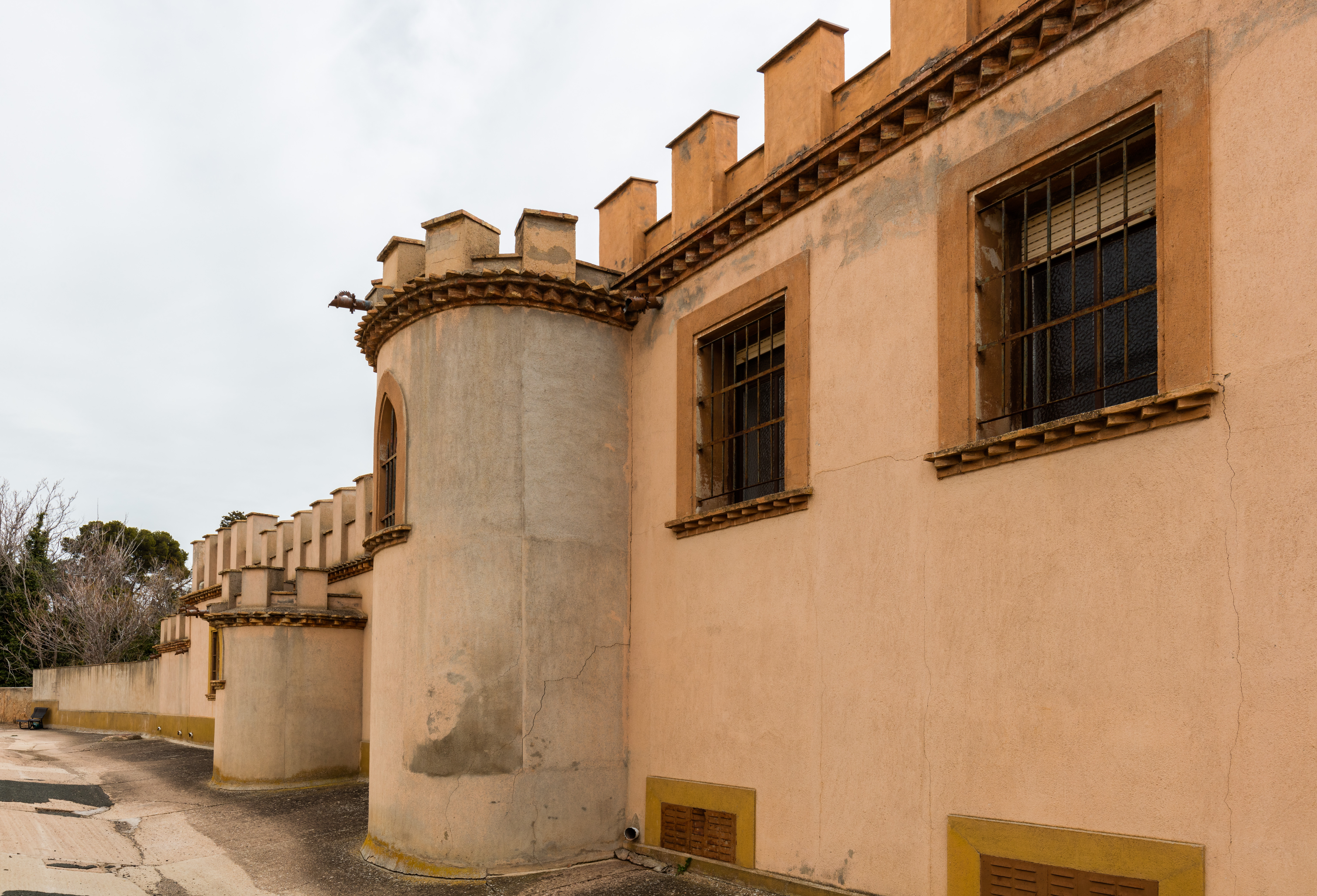 Palace house of the Marquess of Villa Huerta, Santa María de Huerta, Soria, Spain